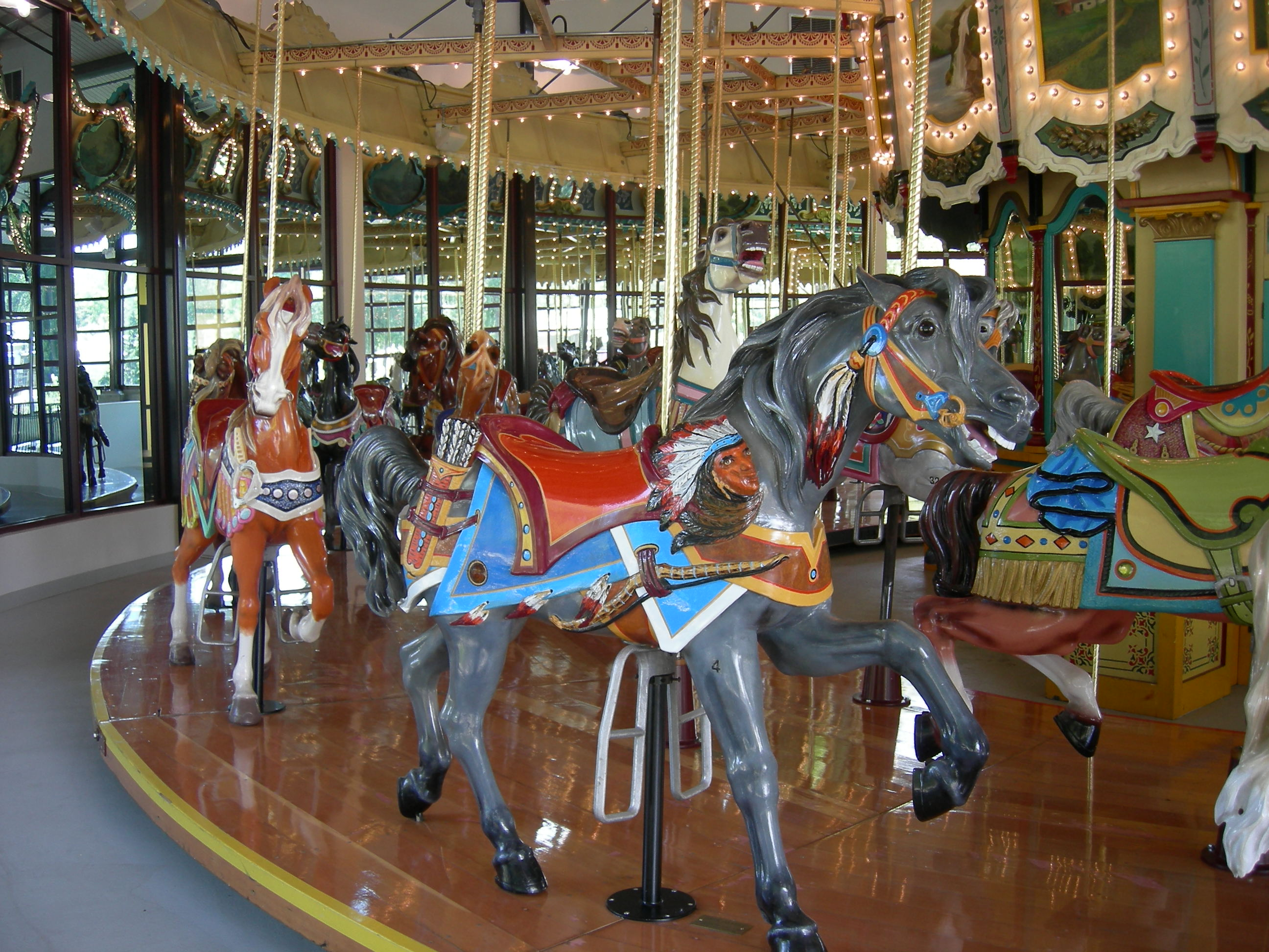 Carousel, Woodland Park Zoo, Seattle, Washington. Hand-carved carousel originally built for the Cincinnati Zoo in 1918 by the Philadelphia Toboggan Company, head carver John Zalar. In the 1970s, the carousel was moved to Santa Clara, California, where it operated into the 1990s. It was donated to WPZ by the Alleniana Foundation, and opened May 1, 2007 in a new pavilion on the zoo's North Meadow.